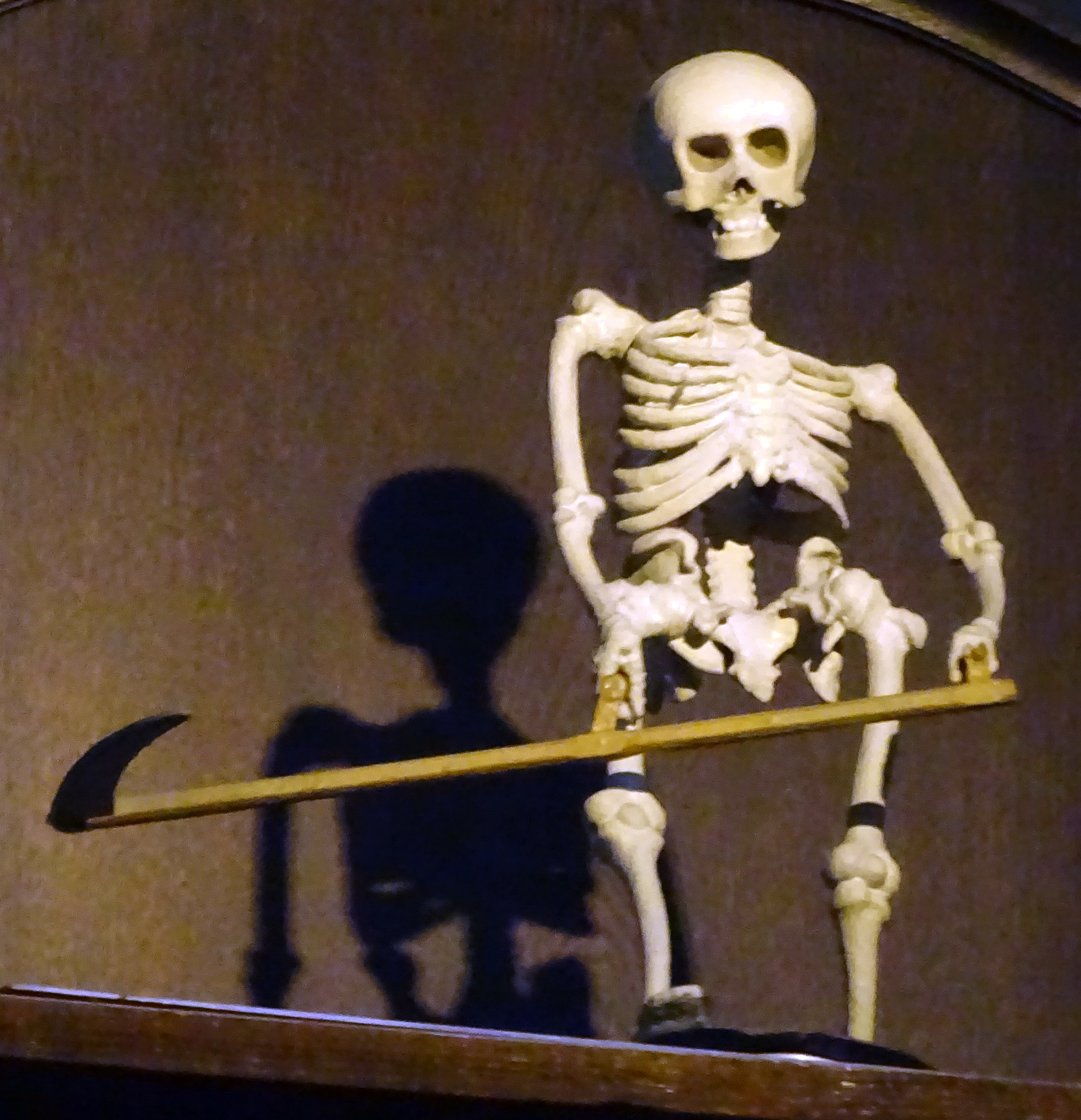 Parish church of St. Philipp und Jakob in Altötting: the so called death of Altötting on the clock in the church makes mowing movements in the rhythm of the clock